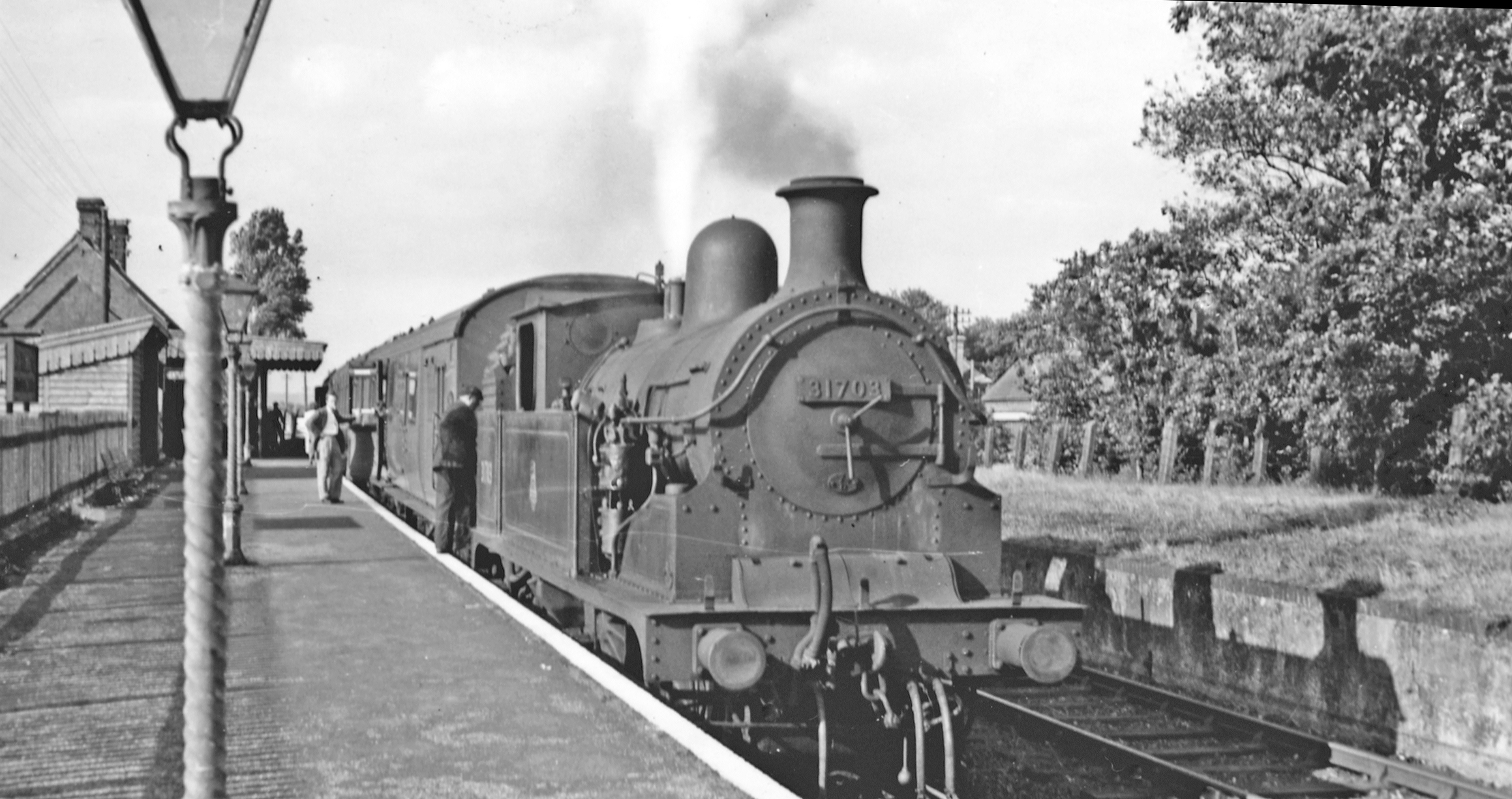 New Romney & Littlestone-on-Sea station with train for Ashford, 1952Compare with TR0724 : New Romney RH&DR station, 1938. The locomotive is ex-SECR Wainwright class R1 0-4-4T No. 31703 (built 11/1900, withdrawn 2/54).